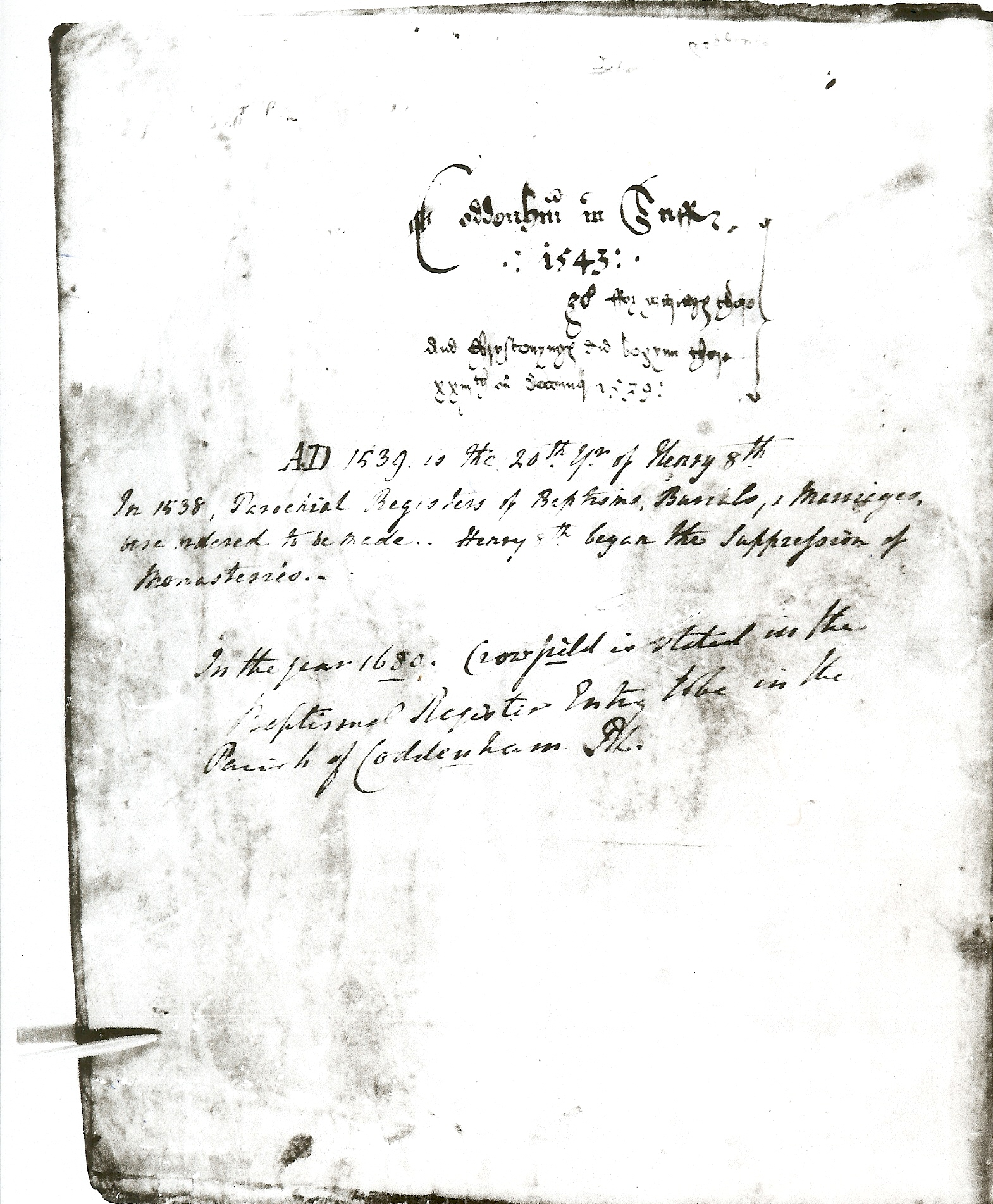 A scan of the microfiche photo of the cover of the parish register.